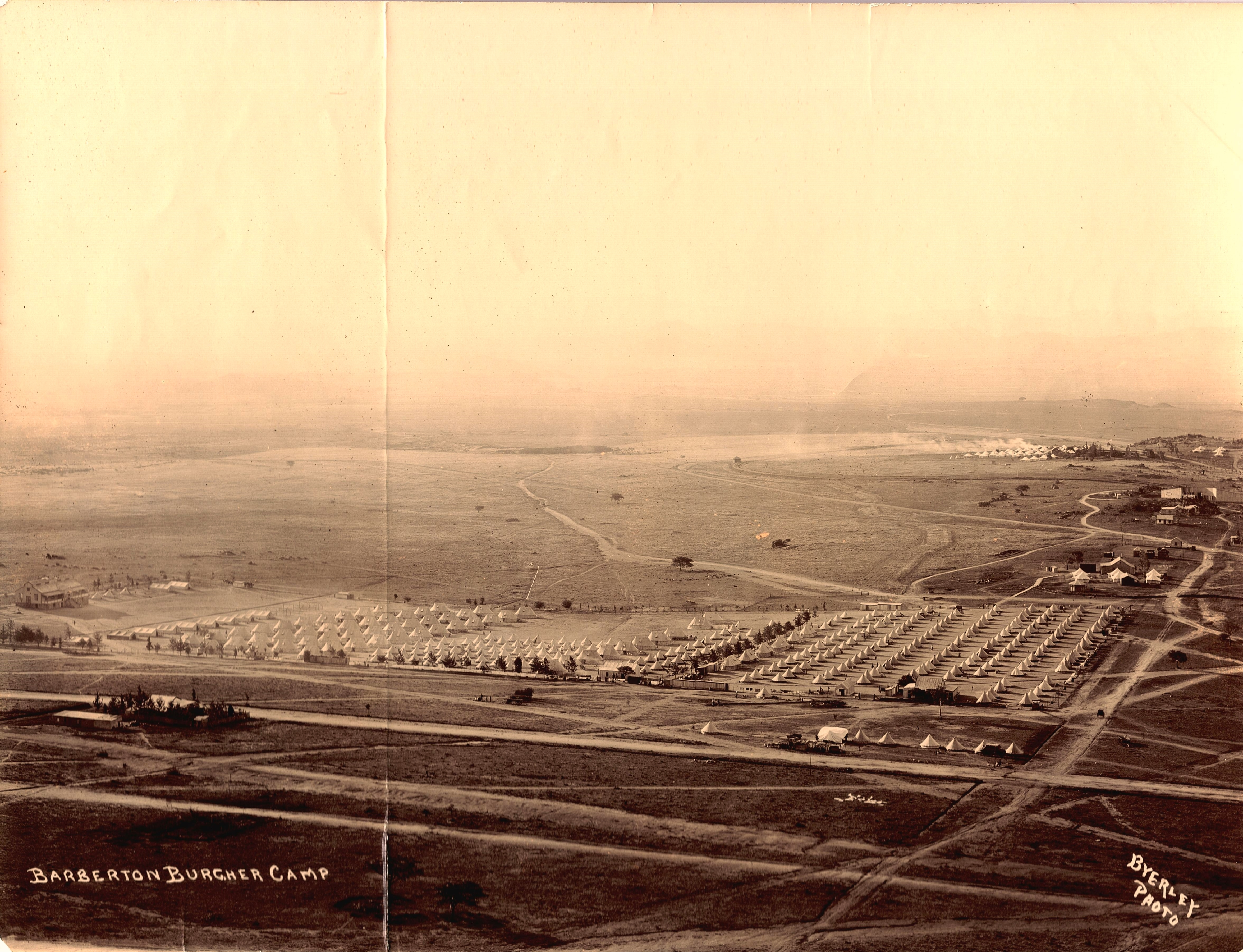 STREATFEILD/2/15 The British built a concentration camp here during the Boer War to house Boer women and children